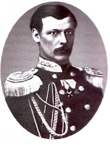 Nikolay Shelgunov (1824-1891) - Russina writer